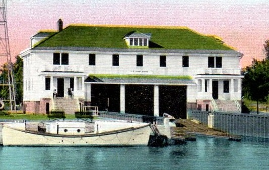 Old Ludington Coast Guard Station - cropped postcard